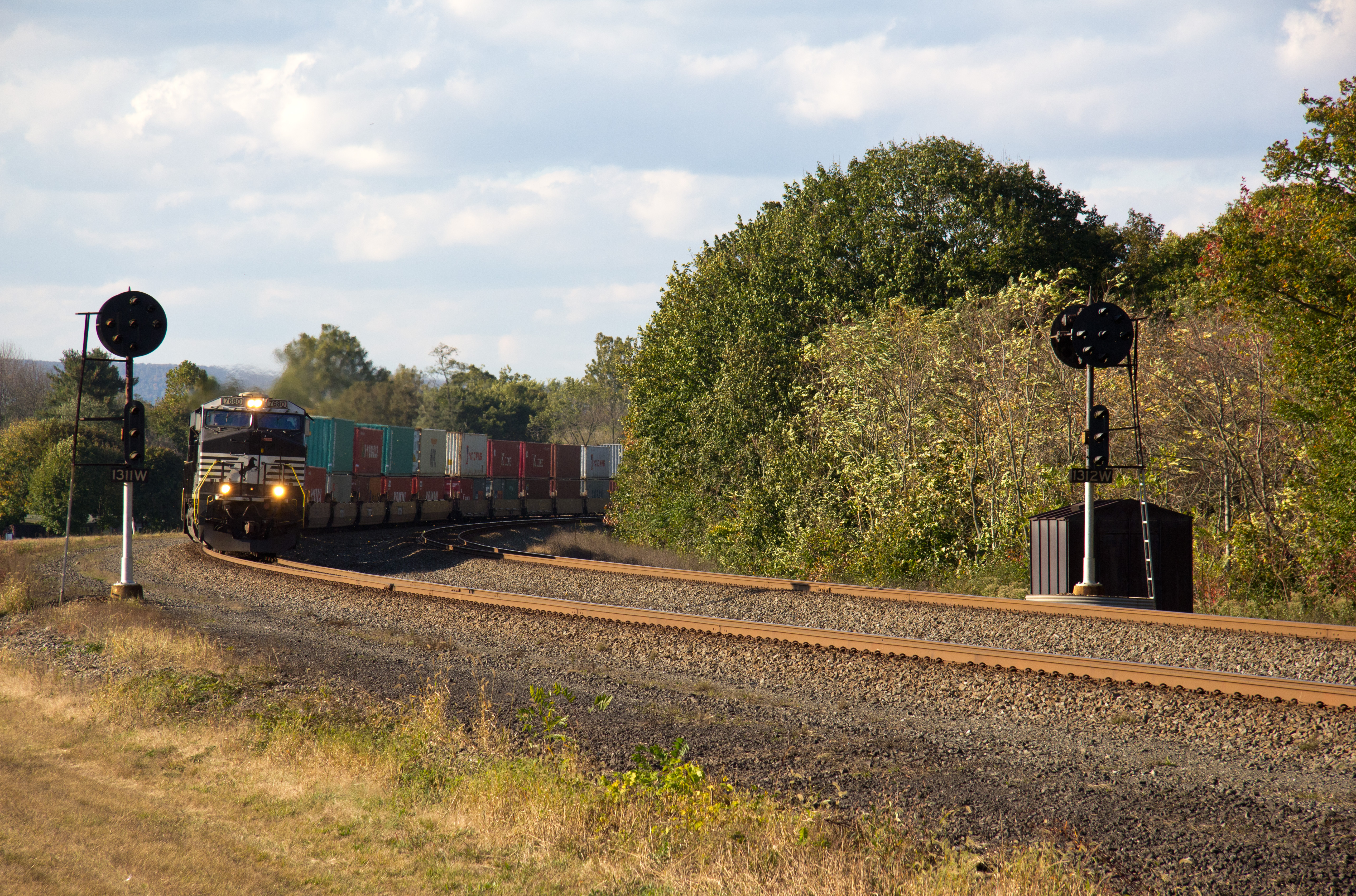 Another NS intermodal (this one headed east) rounds one of the many curves on NS’s Pittsburgh Line just east of Newport, PA.